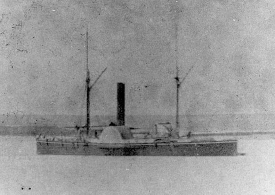 From U.S. Navy public domain Photo #: NH 42863 USS Paul Jones (1862-1867) Photographed by Byron, New York, possibly after the end of the Civil War. U.S. Naval Historical Center Photograph.